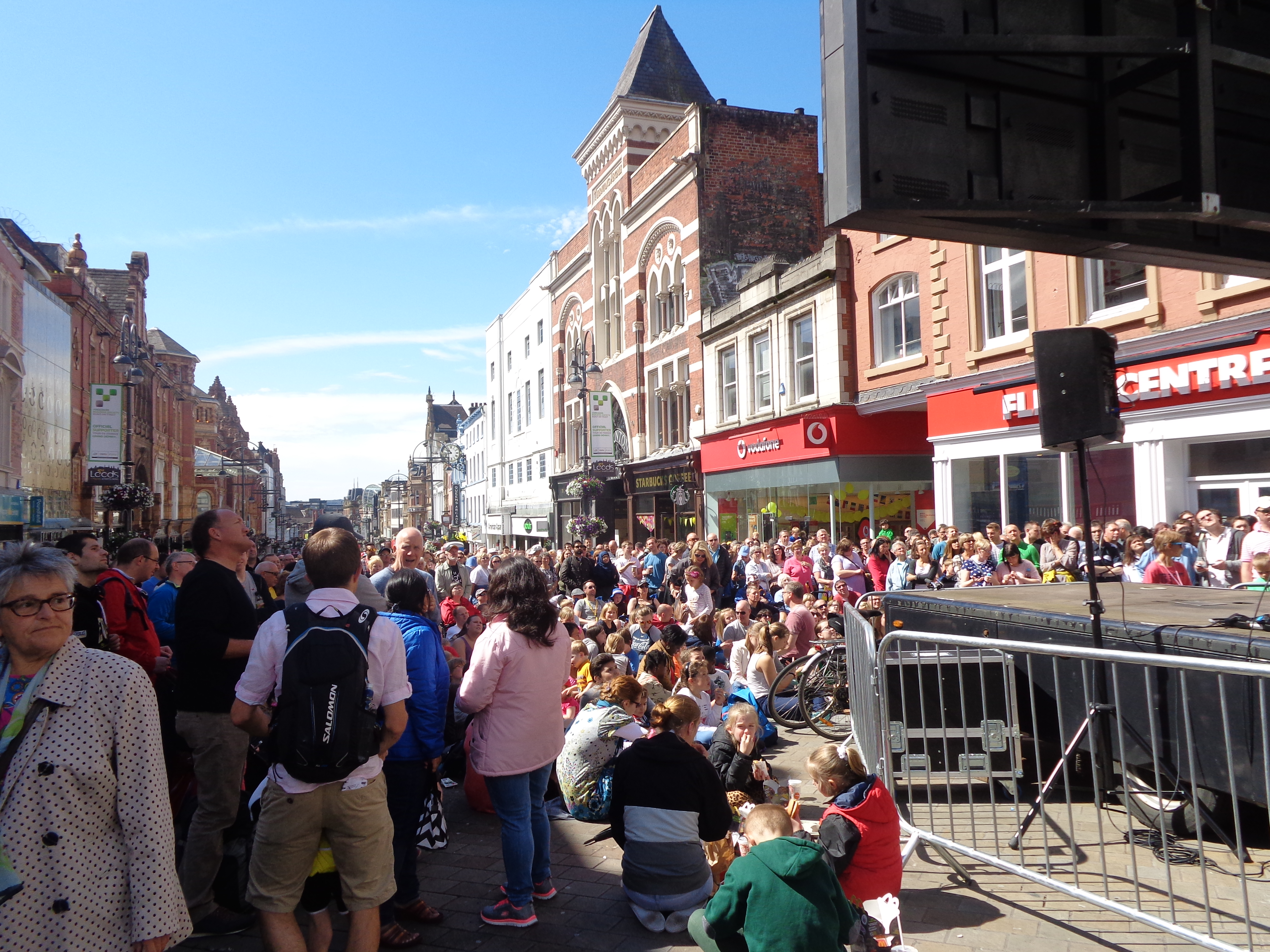 Briggate on the day of the Grand Départ in Leeds, West Yorkshire. Taken on the morning of Saturday the 5th of July 2014.